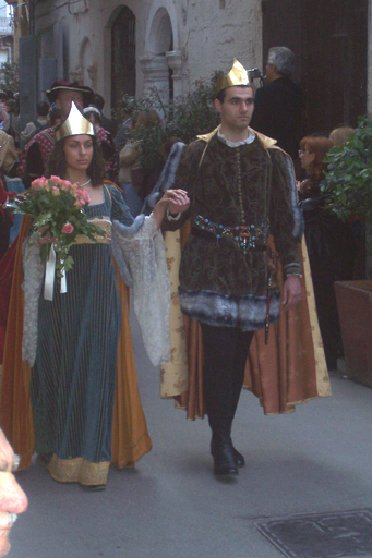 Desciption: Mary of Enghien's wedding - guest at Taranto, Italy Photographer: --Asia Date: 6.5.2006